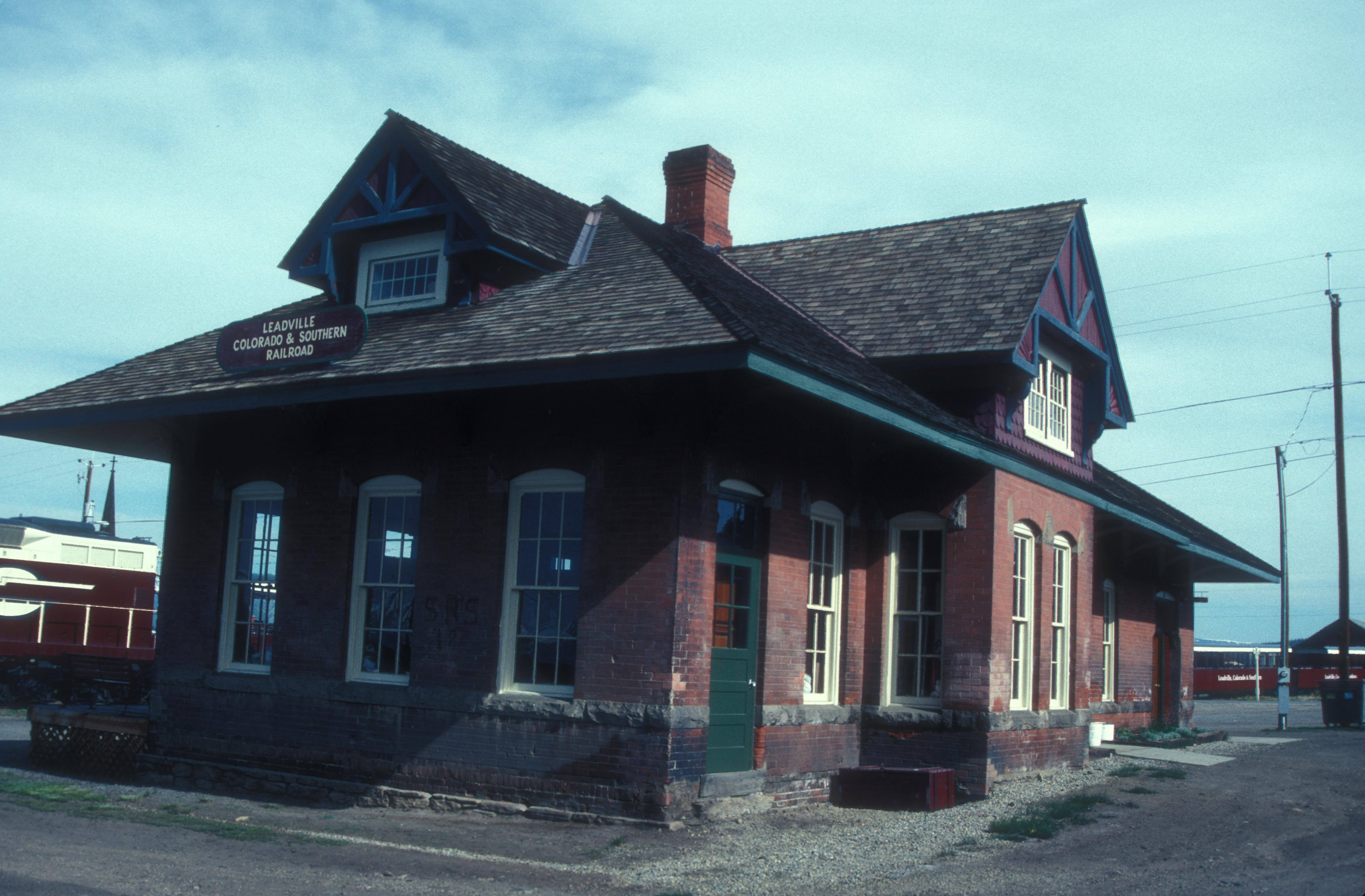 LEADVILLE, COLORADO, & SOUTHERN RR STATION AND EXCURSION 2 1/2 MILES ALONG A RIDGE TO THE CLIMAX MINE PAST FRENCH GULCH WATER TOWER